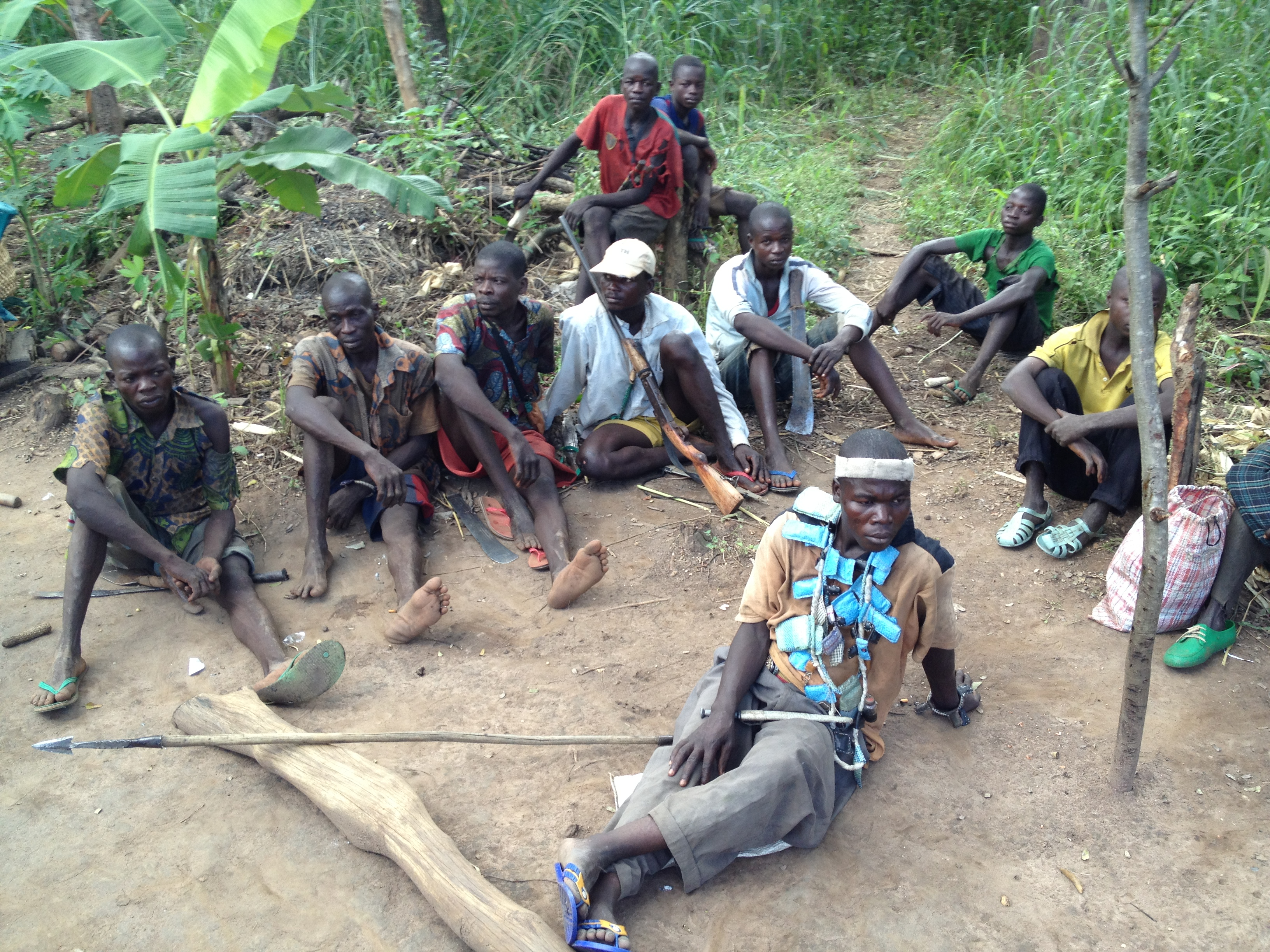 ANTIBALAKA MEMBERS BOSSANGOA This is an image of Cultural Fashion or Adornment from Central African Republic